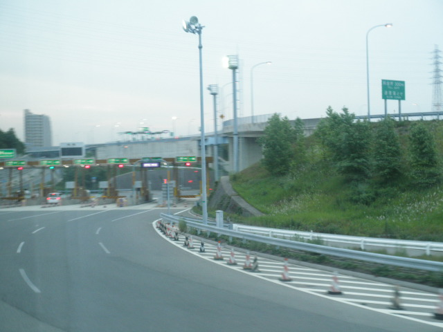 No.2 toll gate at Tarumi Junction